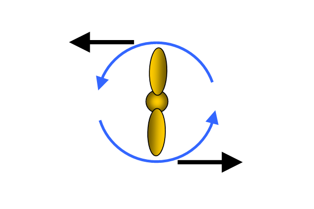 Unaffected rotation of a propeller